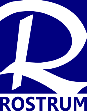 An unofficial version of the Autralian Rostrum organisation's logo in a bitmapped format.